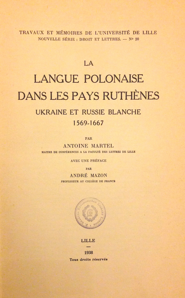 Copy of the book's title page. Made of the copy from the Francis Skaryna Belarusian Library and Museum, London